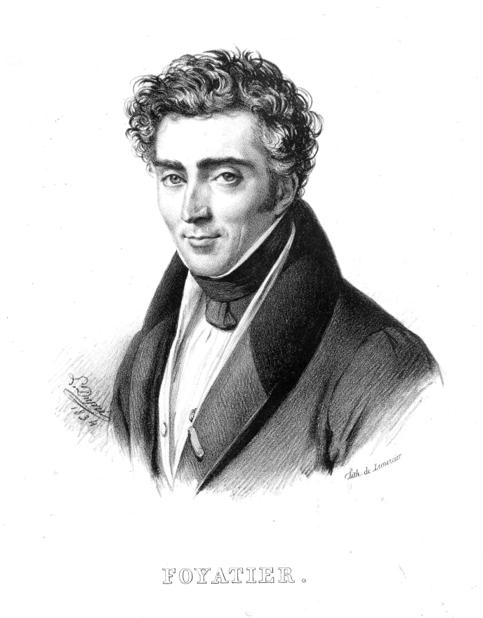 Portrait of Denis Foyatier by Dupré L. from Archives de la Loire. 21,92 x 30,4 cm